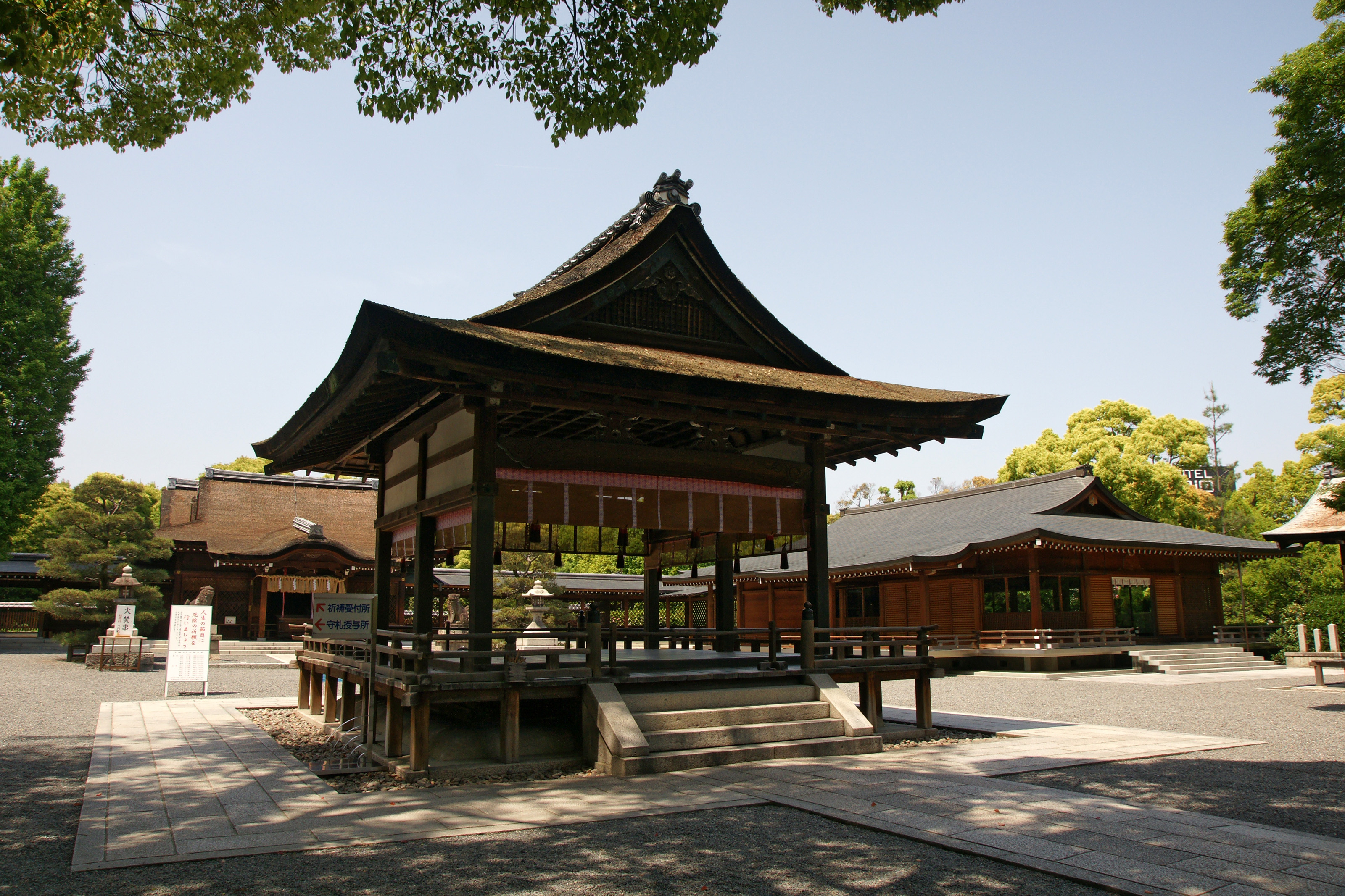 Jonangu in Fushimi, Kyoto, Kyoto prefecture, Japan